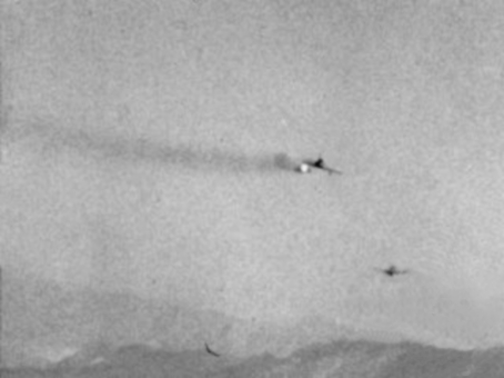 A U.S. Navy North American FJ-2 Fury launches a GIMLET rocket against a Grumman F6F-5K Hellcat target drone in 1954.